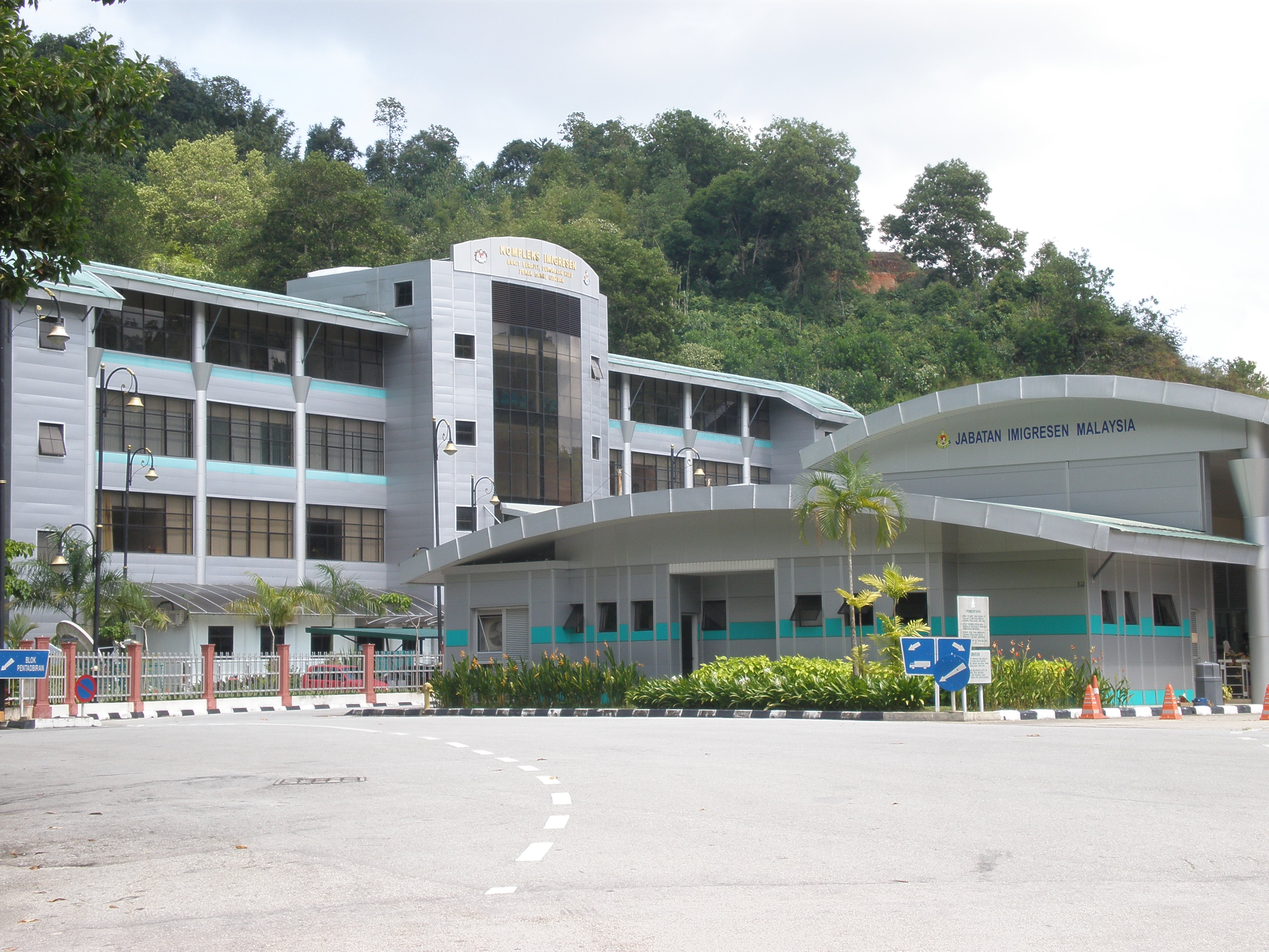 Bukit Berapit CIQS checkpoint in Pengkalan Hulu, Perak.